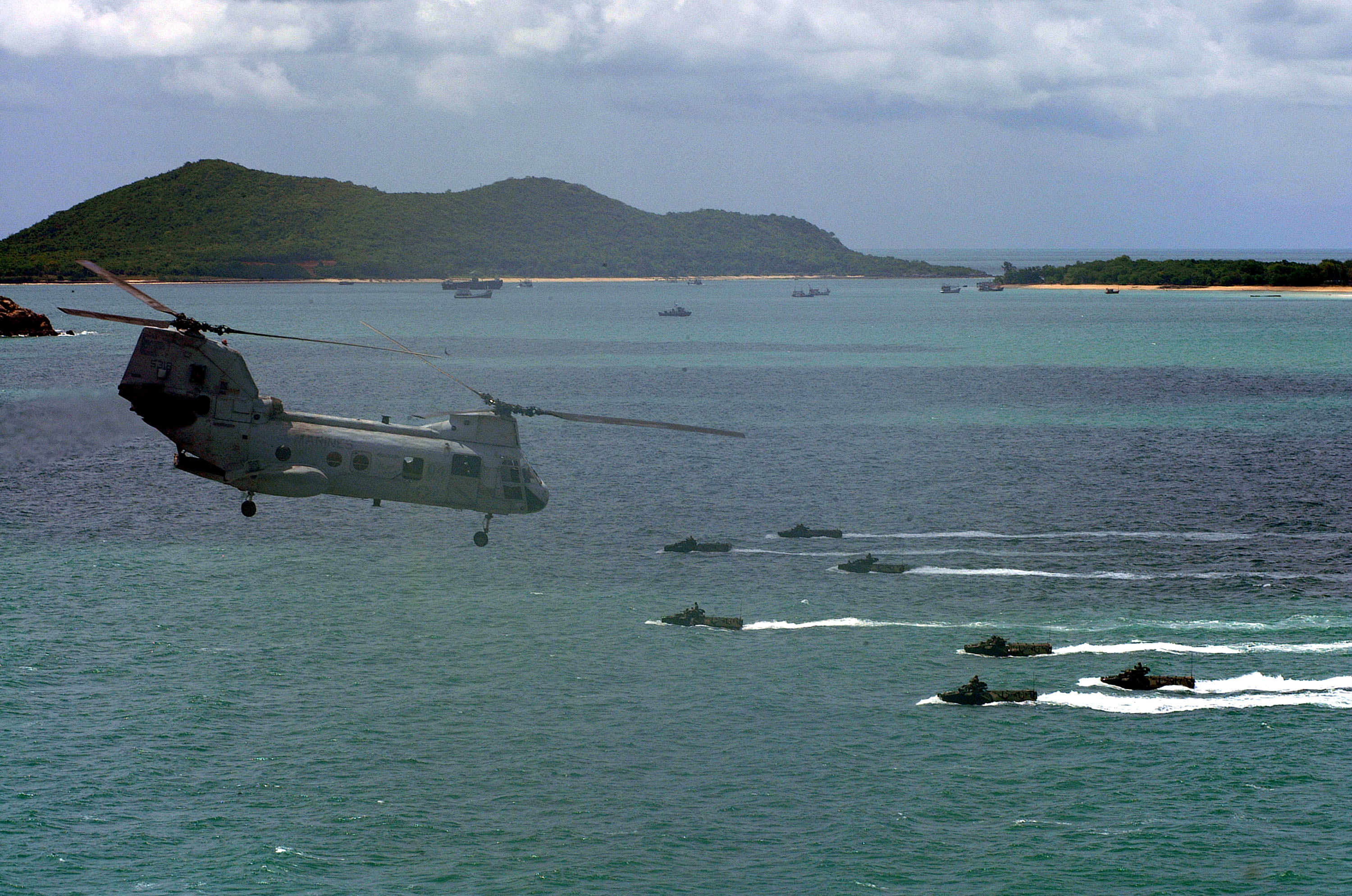 Hat Yao Beach, Thailand (May 28, 2002) -- A U.S. Marine CH-46 “Sea Knight” helicopter assigned to the 31st Marine Expeditionary Unit flies over seven Royal Thai Marine Corps Amphibious Assault Vehicles (AAVs) as they head toward Hat Yao Beach during a combined amphibious landing force exercise (CALFEX). The exercise is part of Cobra Gold 2002. Cobra Gold 2002 is the 21st U.S. Pacific Command exercise conducted in Thailand demonstrating the ability of U.S. Forces to rapidly deploy and conduct Joint-combined operations with the Thai and Singaporean armed forces. U.S. Navy photo by Journalist 3rd Class Wes Eplen. (RELEASED)